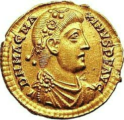 DNMAGMAXIMVSPFAVG - Rosette-diademed, draped and cuirassed bust right. RIC 77b (Treveri), Depeyrot 52/1, C 9.